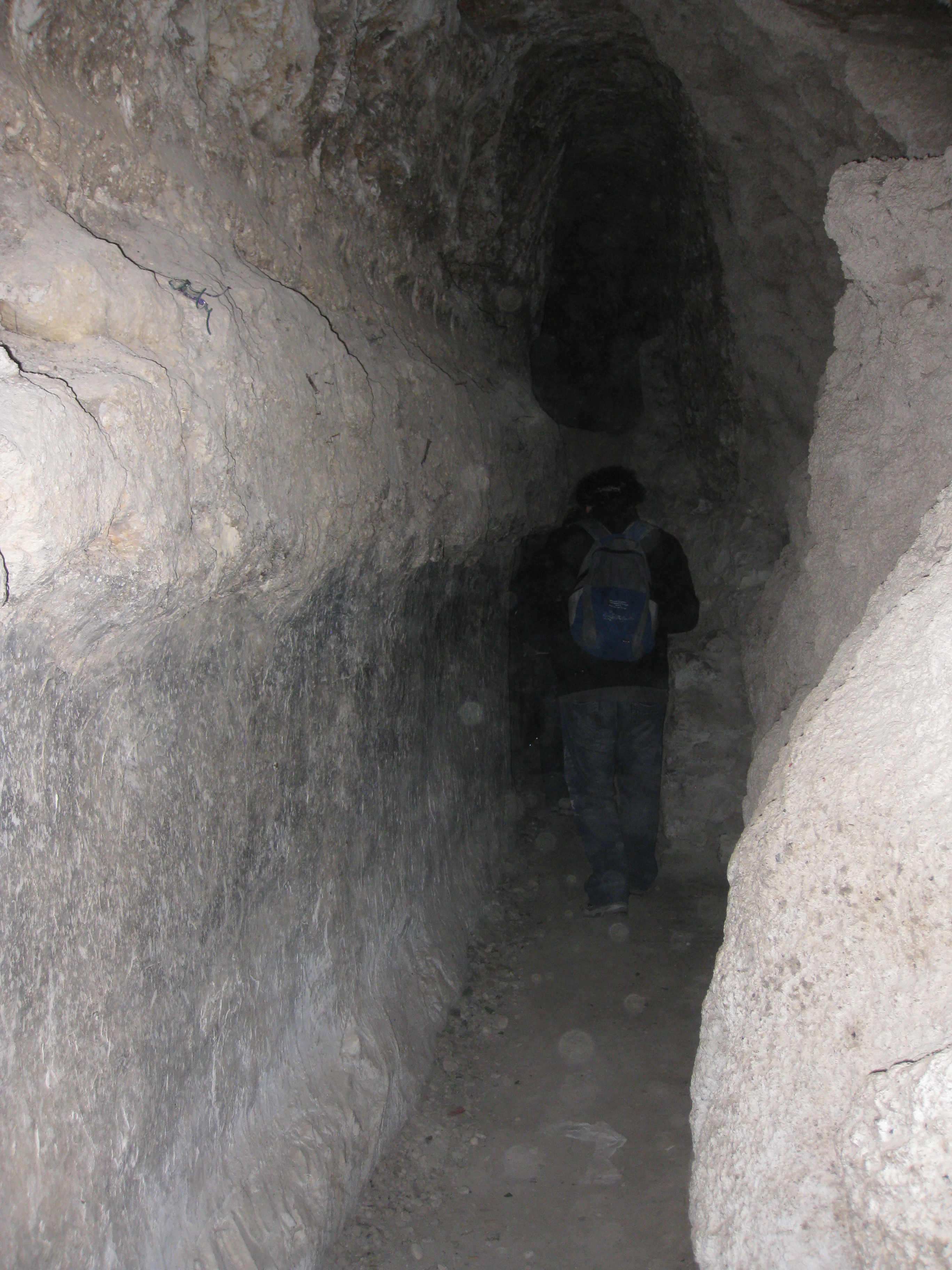 Inside The Lower Aqueduct Tunnel